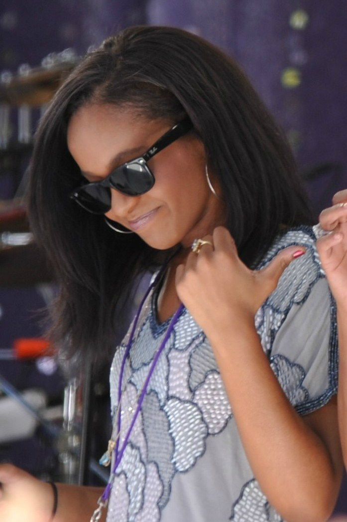 American singer Bobbi Kristina Brown on Good Morning America (Central Park, New York City) on September 1, 2009.